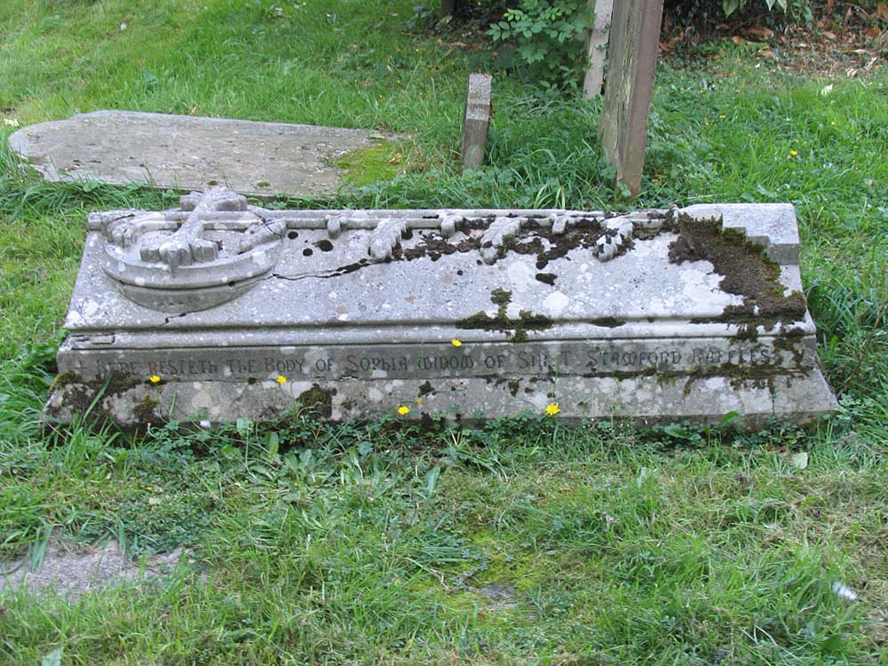 St Paul, The Ridgeway, Mill Hill - Churchyard, near to Mill Hill, Barnet, Great Britain. Grave of Stamford Raffles wife